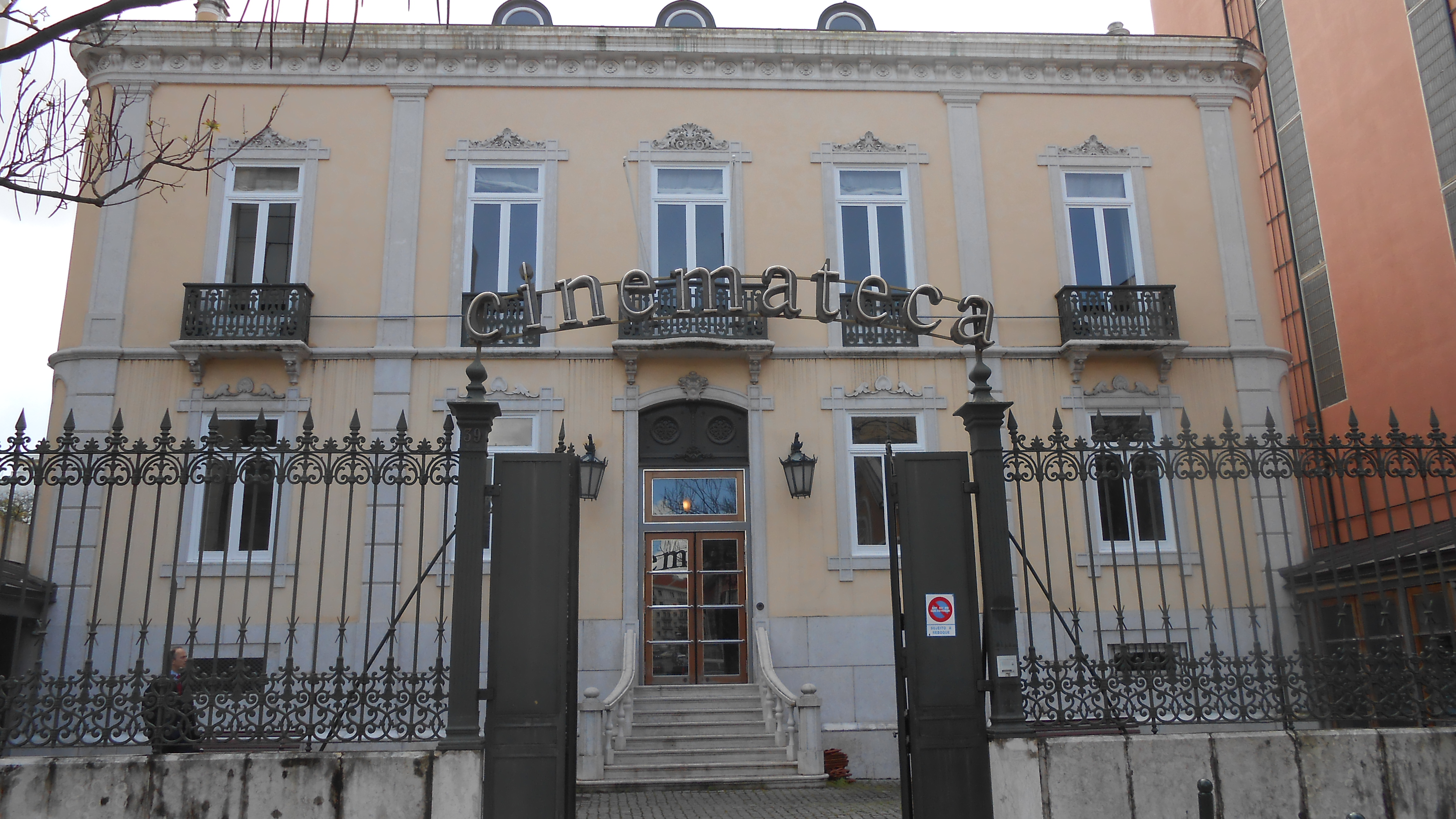 The Cinemateca Portuguesa, the film museum in Lisbon (front)